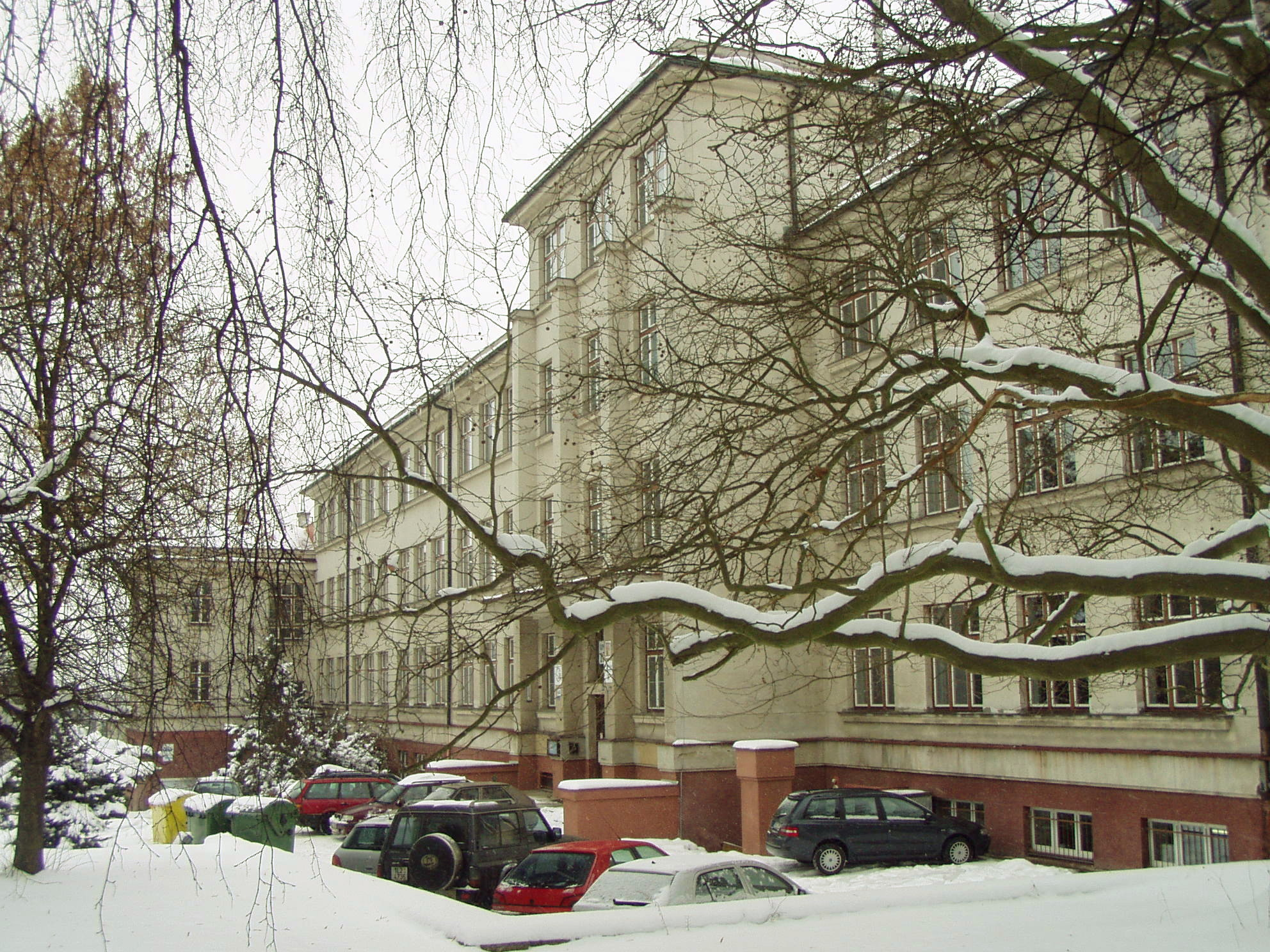 Gymnasium (grammar school) in Turnov, Semily District, Czech Republic, view from Výšinka Street